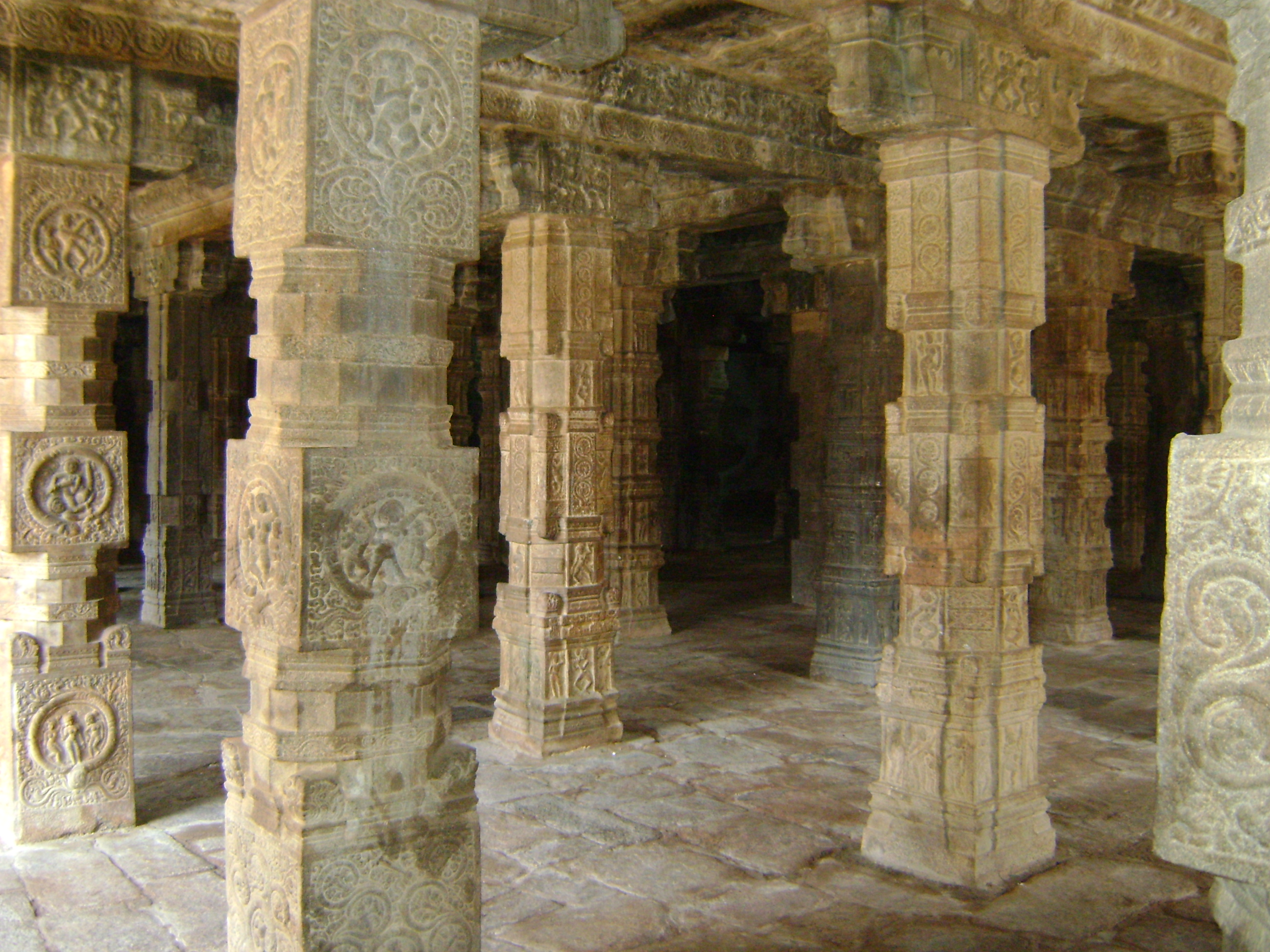 Airavatesvara Temple- Aira Pillars - The Pillars depicts socio-economic conditions of the period